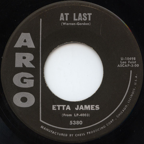 Etta James – At Last/I Just Want to Make Love to You vinyl record